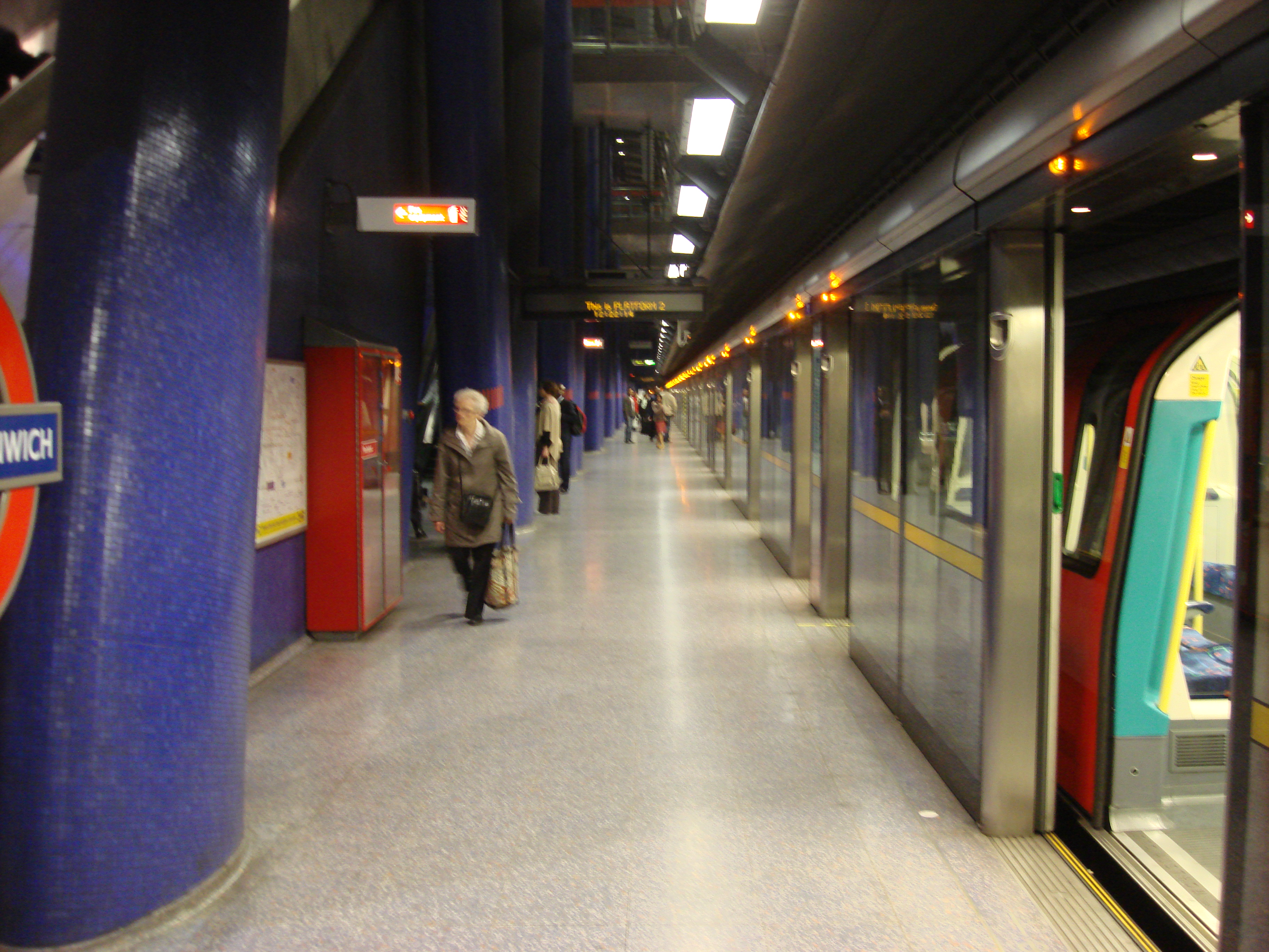 North Greenwich tube station, Platform 2